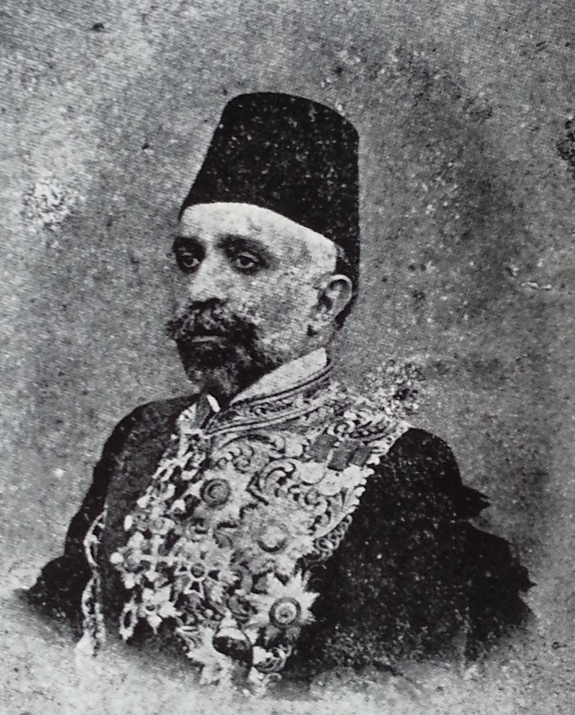 Yūsuf Franco Pasha, the 7th Mutasarrif of Mount Lebanon (1907 - 1912)